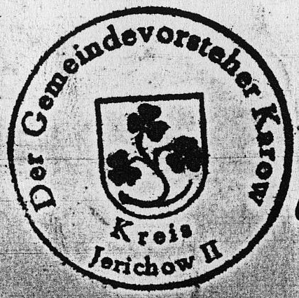 Seal of Karow, Germany